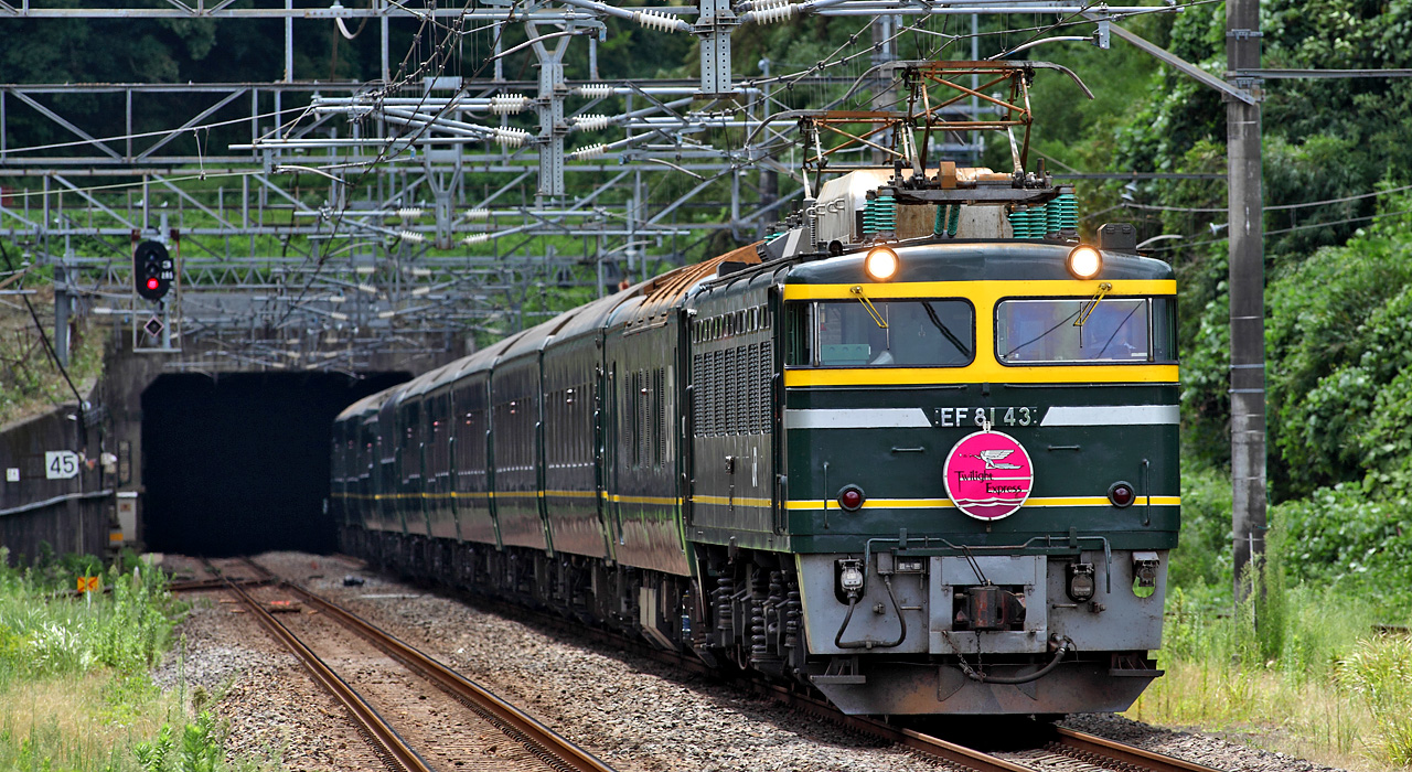 JR West Class EF81 electric locomotive EF81 43 approaching Ogoto-onsen Station on the Twilight Express overnight sleeping car service for Sapporo